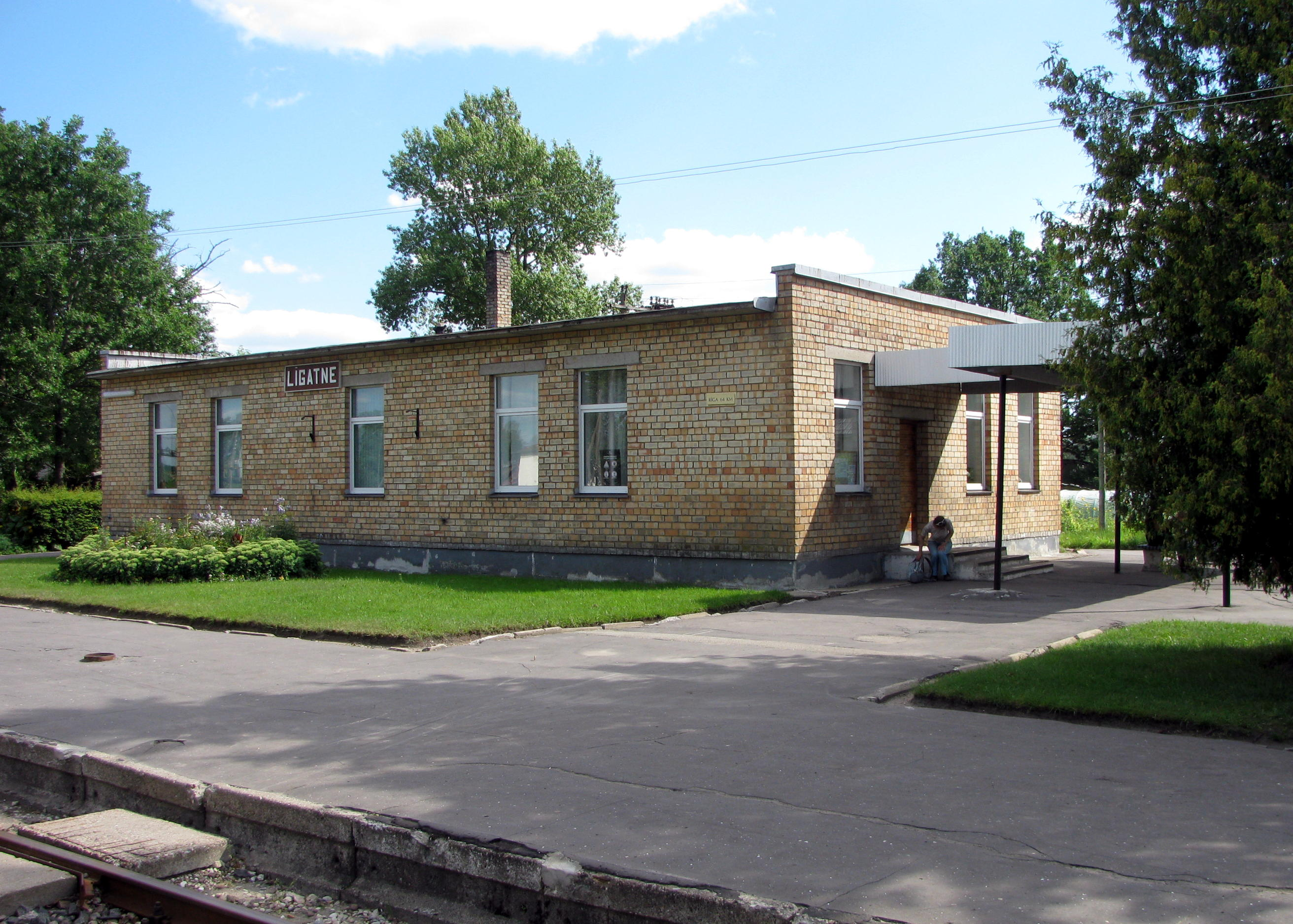 Līgatne railway station, Riga – Lugaži Railway, Latvia